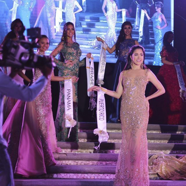 Final of Miss Teen Earth held in Ecuador.